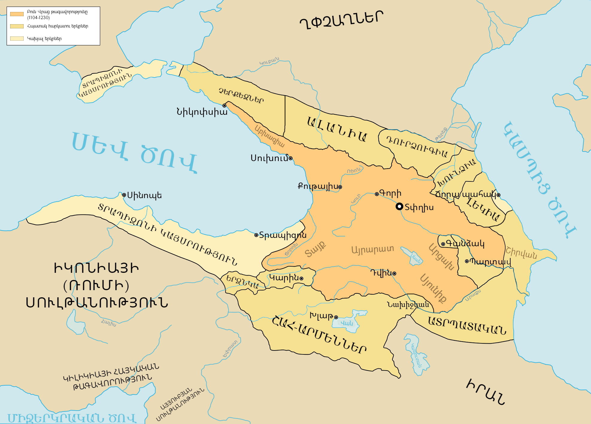 Queen Tamar's Georgia's map mainly drawn after Levan Asatiani's map (Georgia at the peak of her might 1150-1220) from საქართველო – 1150-1220 წწ.